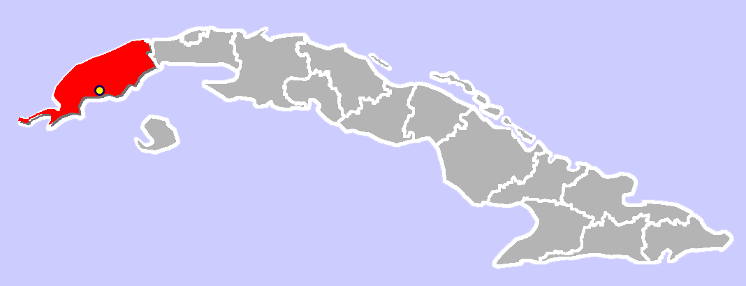 Location of San Luis, Pinar del Río, Cuba